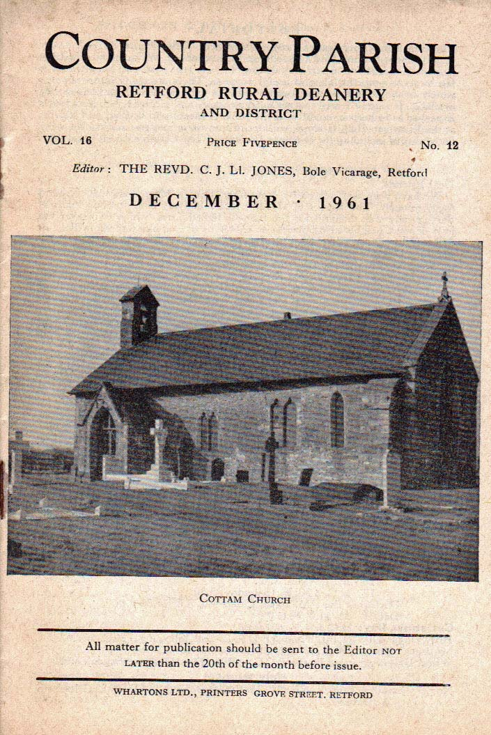 Cover of original copy of Country Parish Magazine, Dec 1961